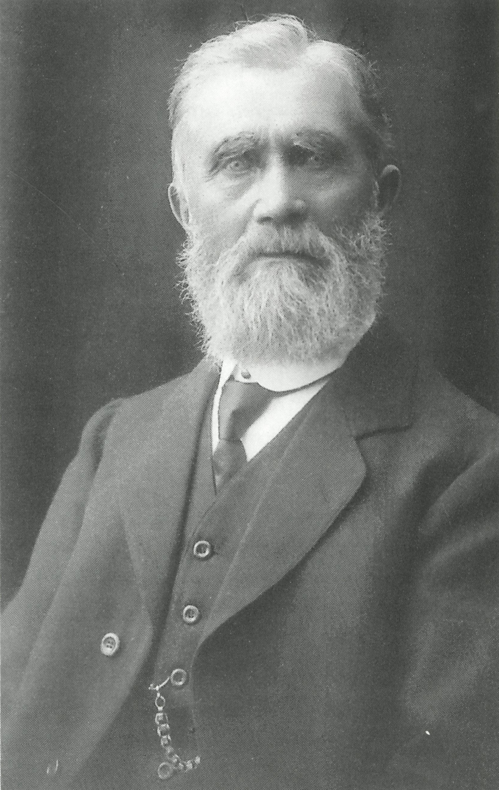 The Norwegian master builder Ole Olsen Scheistrøen, b. 1833